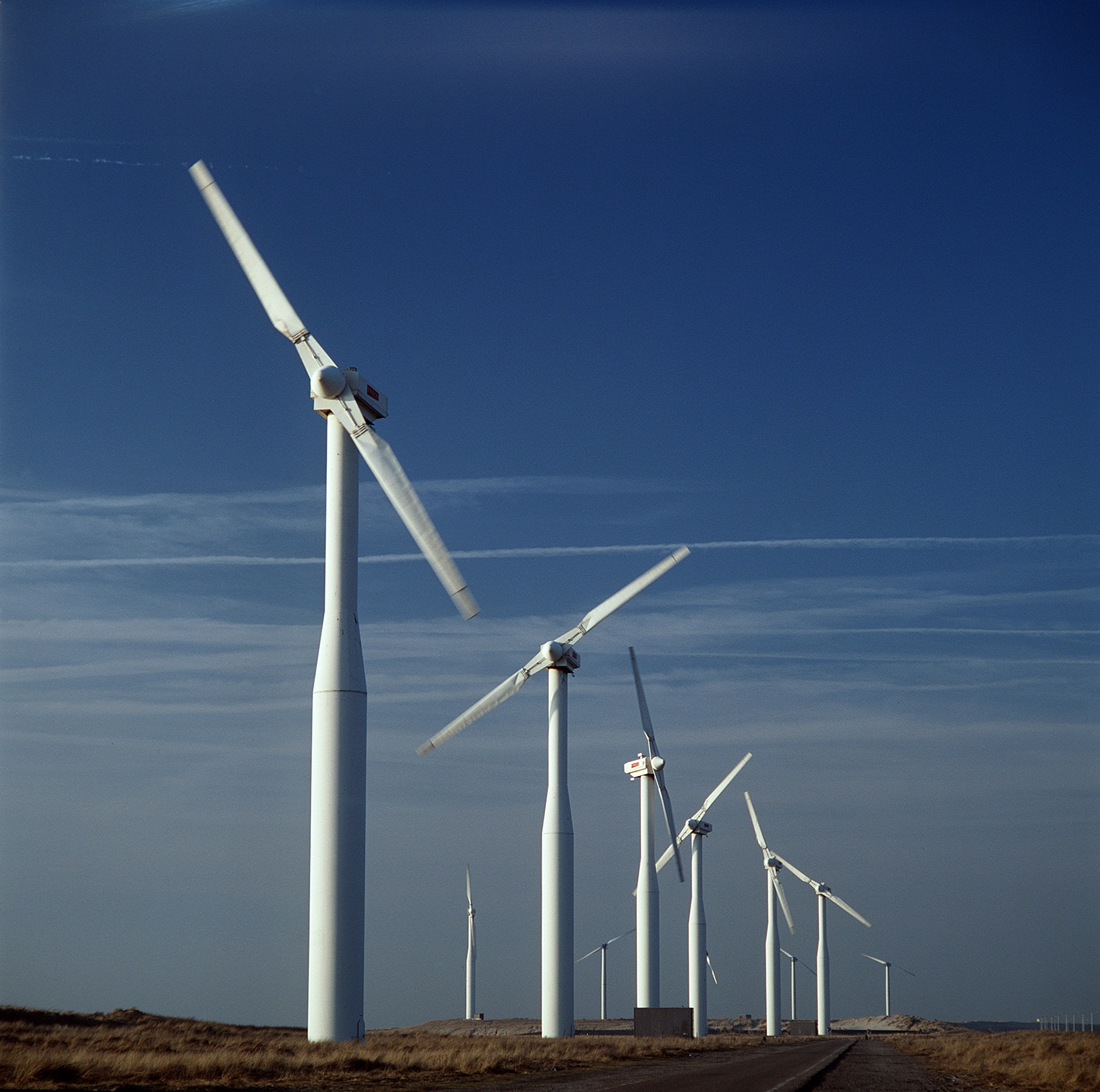 Windmills Windmolenpark Nederland